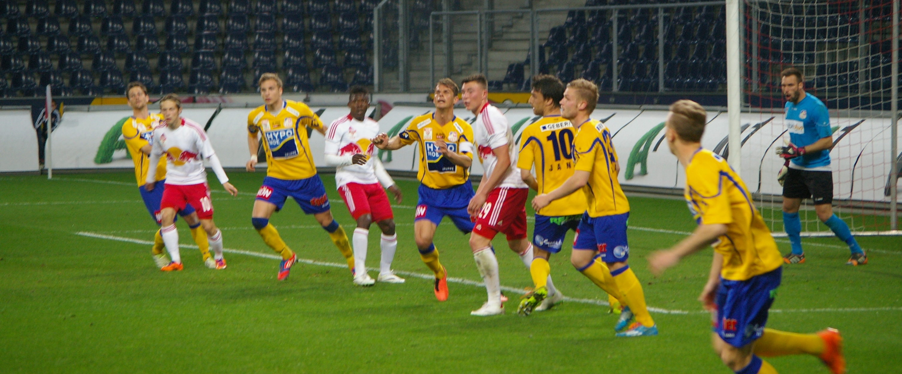 league match Austria 2nd league